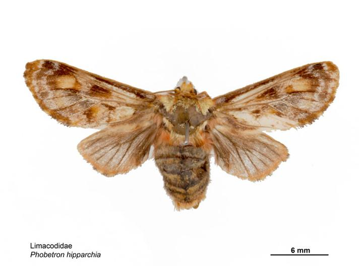 Phobetron hipparchia, dorsal view